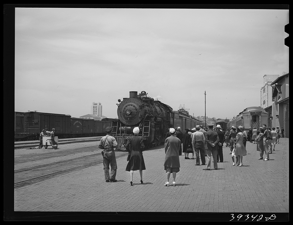 The station platform at San Diego during World War II. The Valley Flyer train, used as the San Diegan, is at the right. The local train from Los Angeles is just pulling in with No. 3749 on the head end.